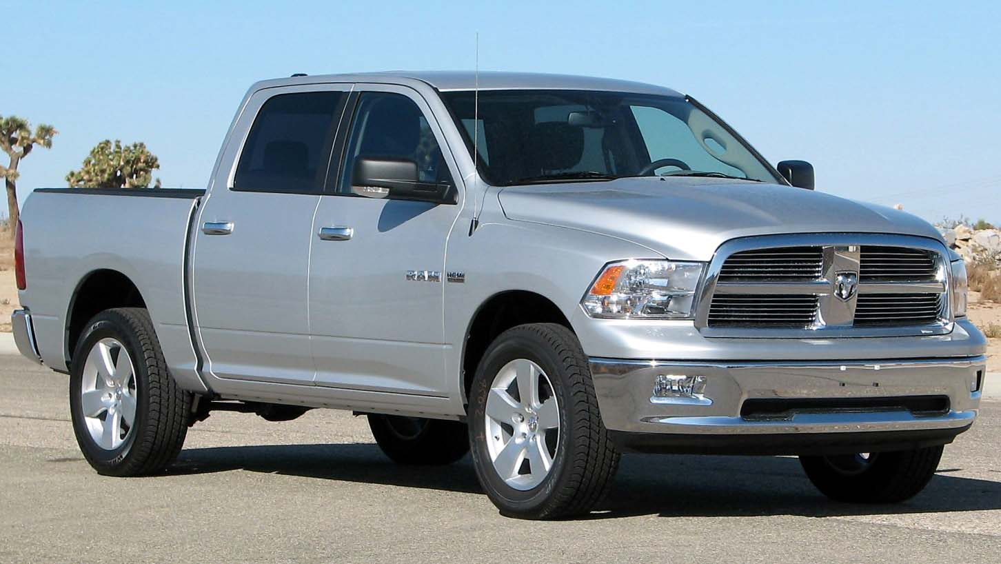 2009 Dodge RAM 1500 SLT 4-door pickup, photographed in USA.